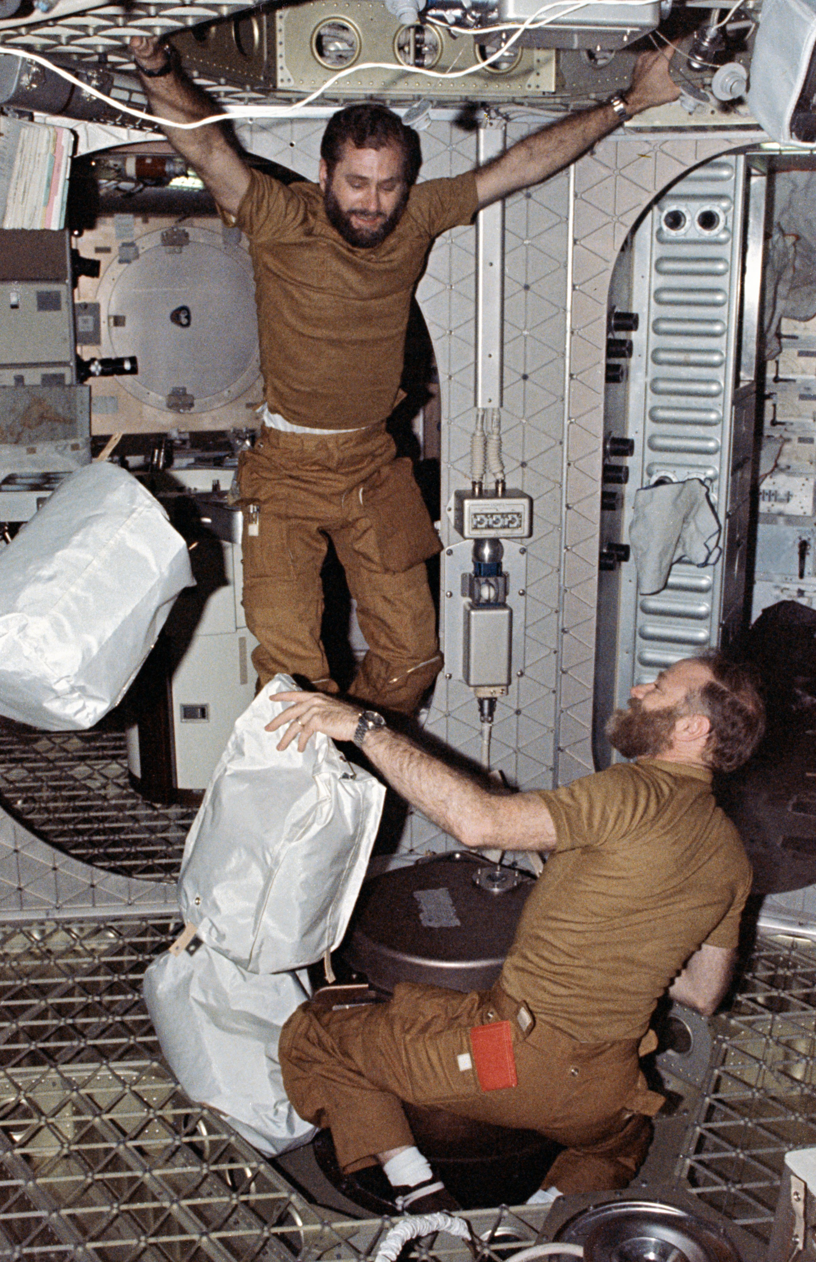 Two Skylab 4 crewmen are seen passing trash bags through the trash airlock of the Orbital Workshop OWS of the Skylab space station in Earth orbit. The trash airlock leads to the OWS waste disposal tank. Astronaut William R. Pogue, pilot, holds onto the OWS crew quarters ceiling as he prepares to jump onto the OWS airlock hatch cover to force another trash bag further down into the airlock. Astronaut Gerald P. Carr, commander, assisted by holding onto the trash bags. A third trash bag is floating in the zero-gravity environment near Pogue's right leg. The wardroom can be seen behind Pogue. Image ID:S74-17304